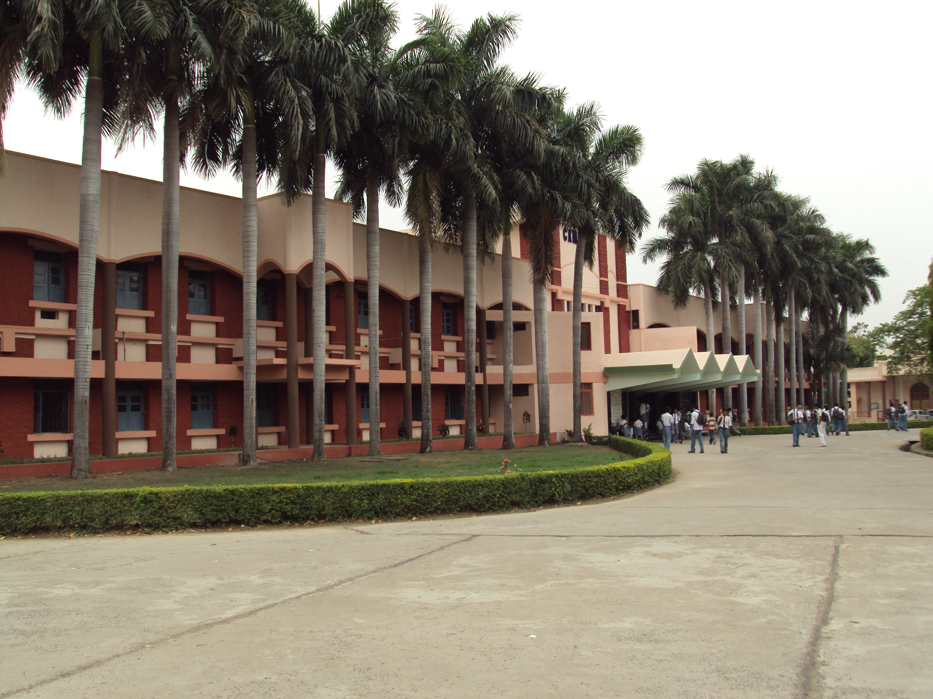 Front view of the Secondary section of Campion School,Bhopal